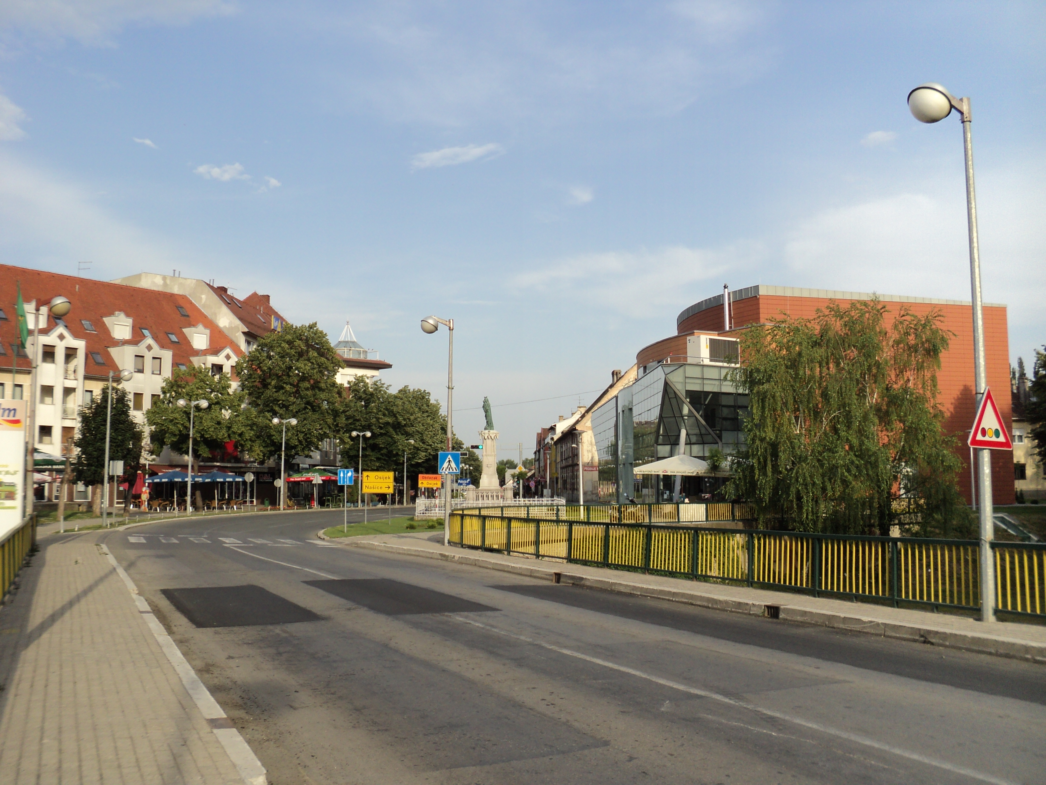 City center of Valpovo.